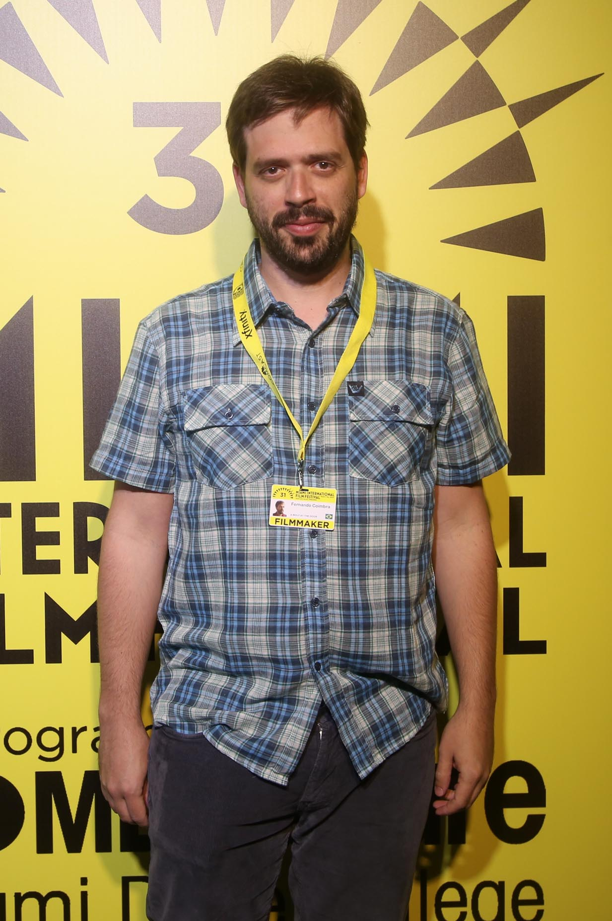 A WOLF AT THE DOOR director Fernando Coimbra at the 2014 Miami International Film Festival Photo by: Alberto Tamargo